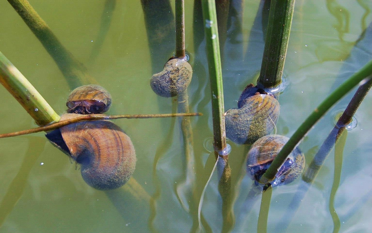 Pomacea insularum eating Soft-stemmed Rush Juncus effusus.